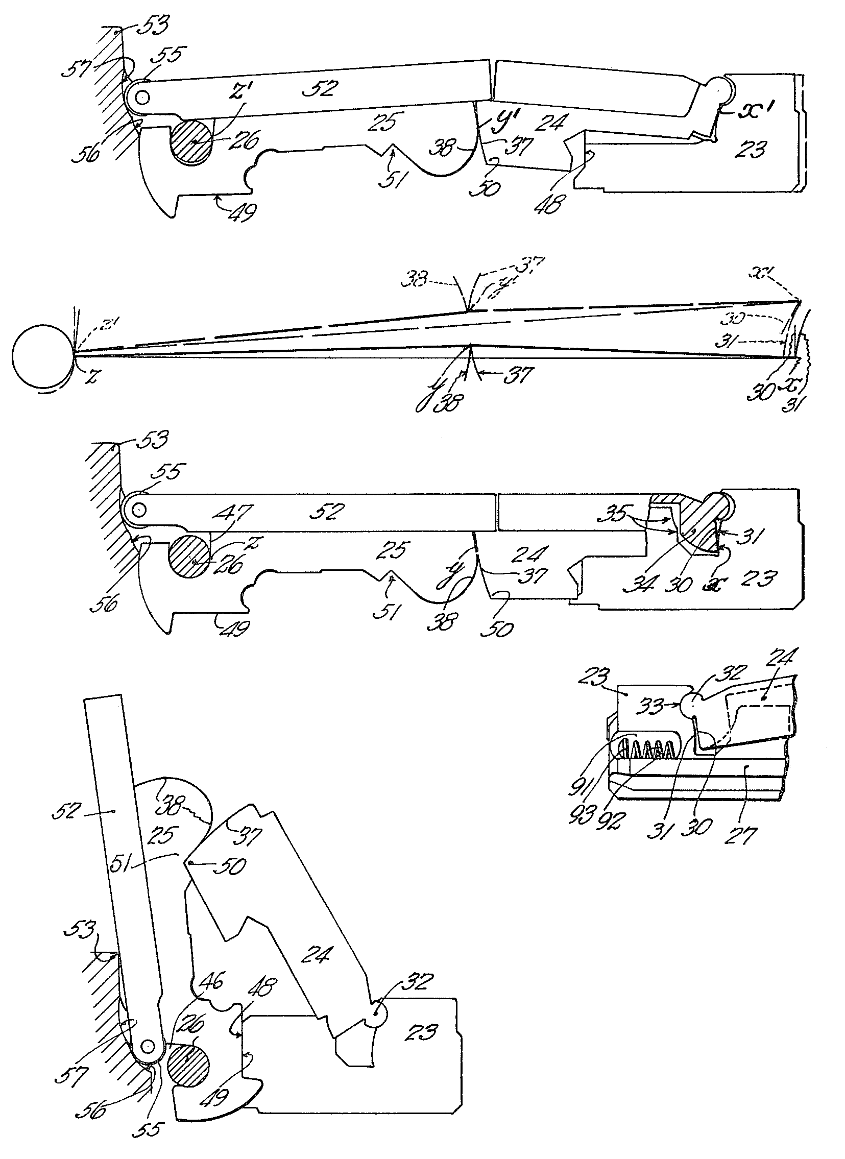 toggle delay blowback action for Pedersen rifle illustrated in U.S. Patent 1,737,974